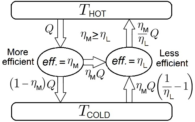 A more efficient heat engine cannot reverse drive a less efficient (reversible) heat engine without violating the second law of thermodynamics.